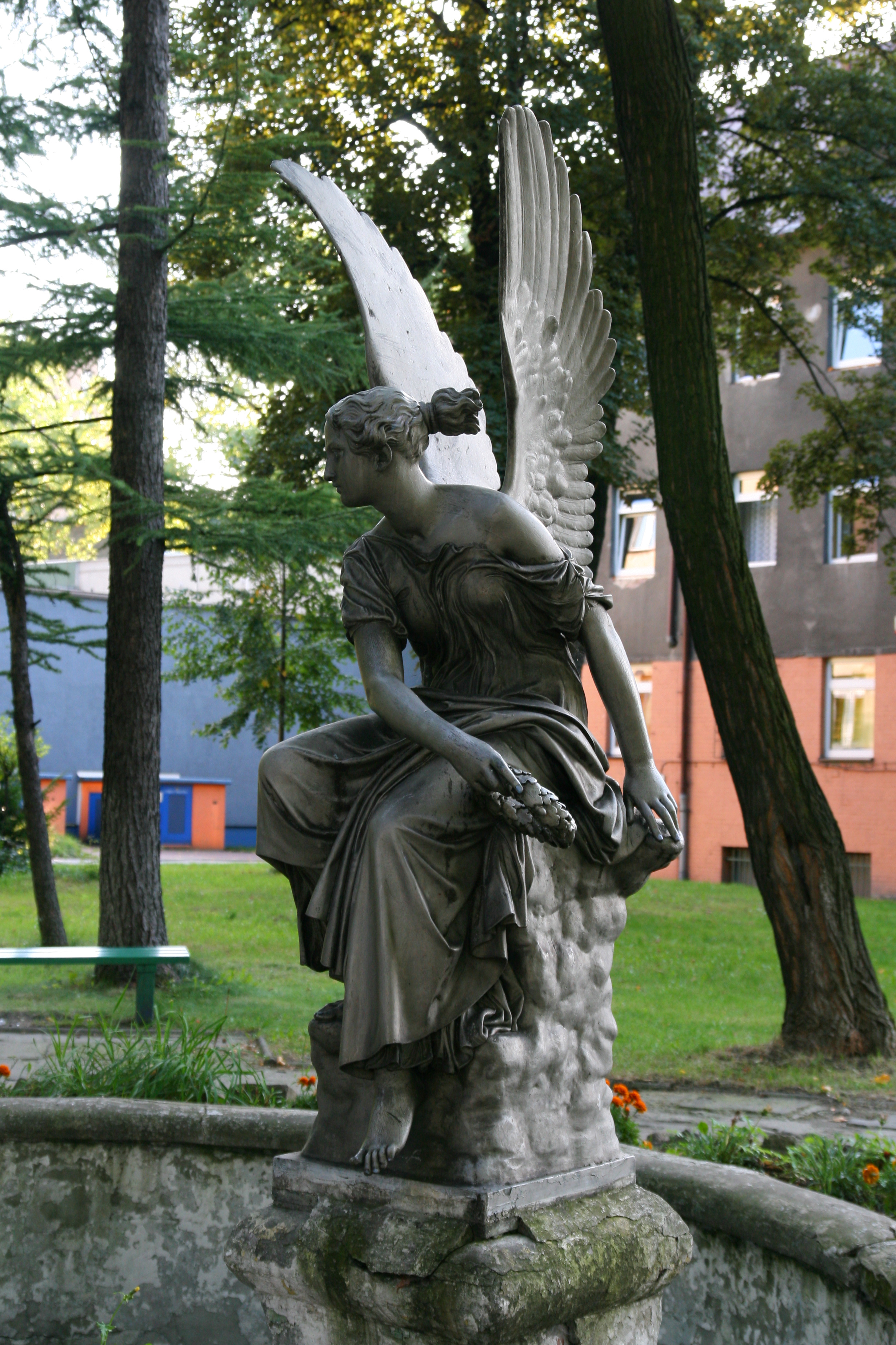 Statue of Wiktoria in Katowice.